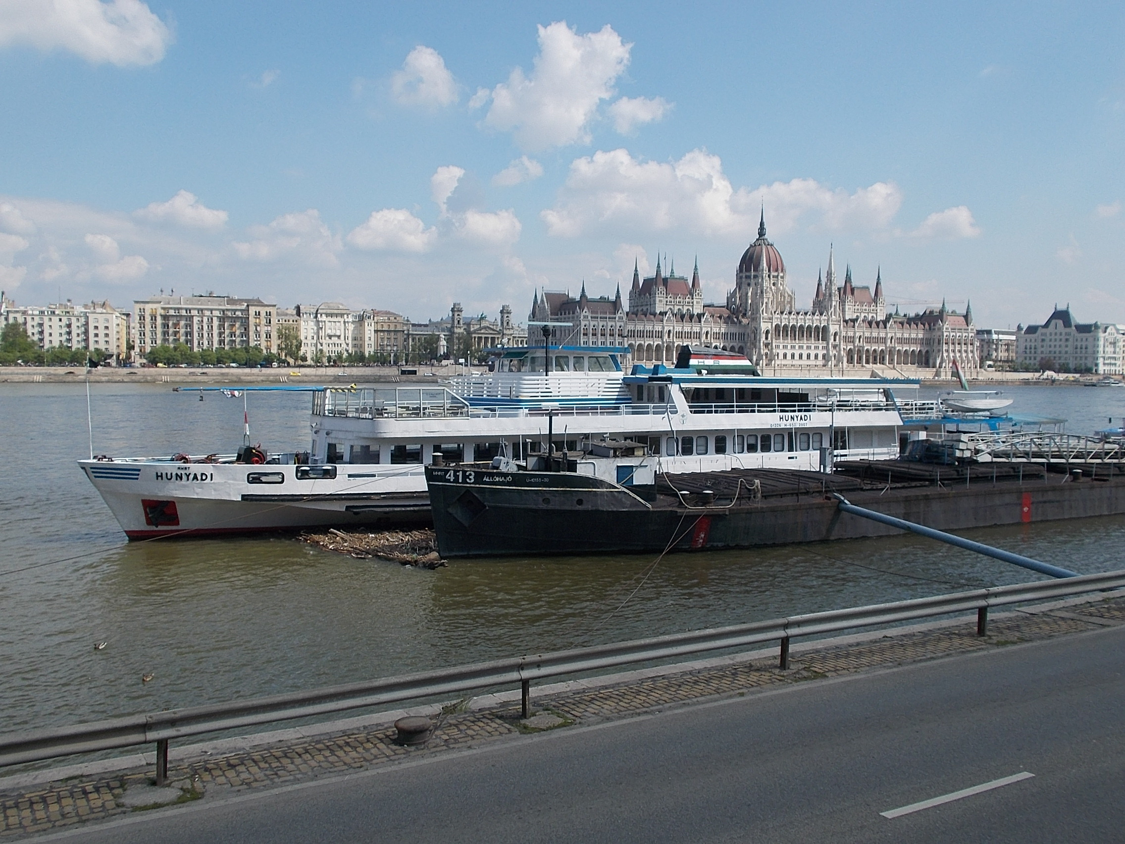 Hunyadi (ship, 1966) and the Hungarian Parliament Building. - Angelo Rotta quay, 2nd district of Budapest.